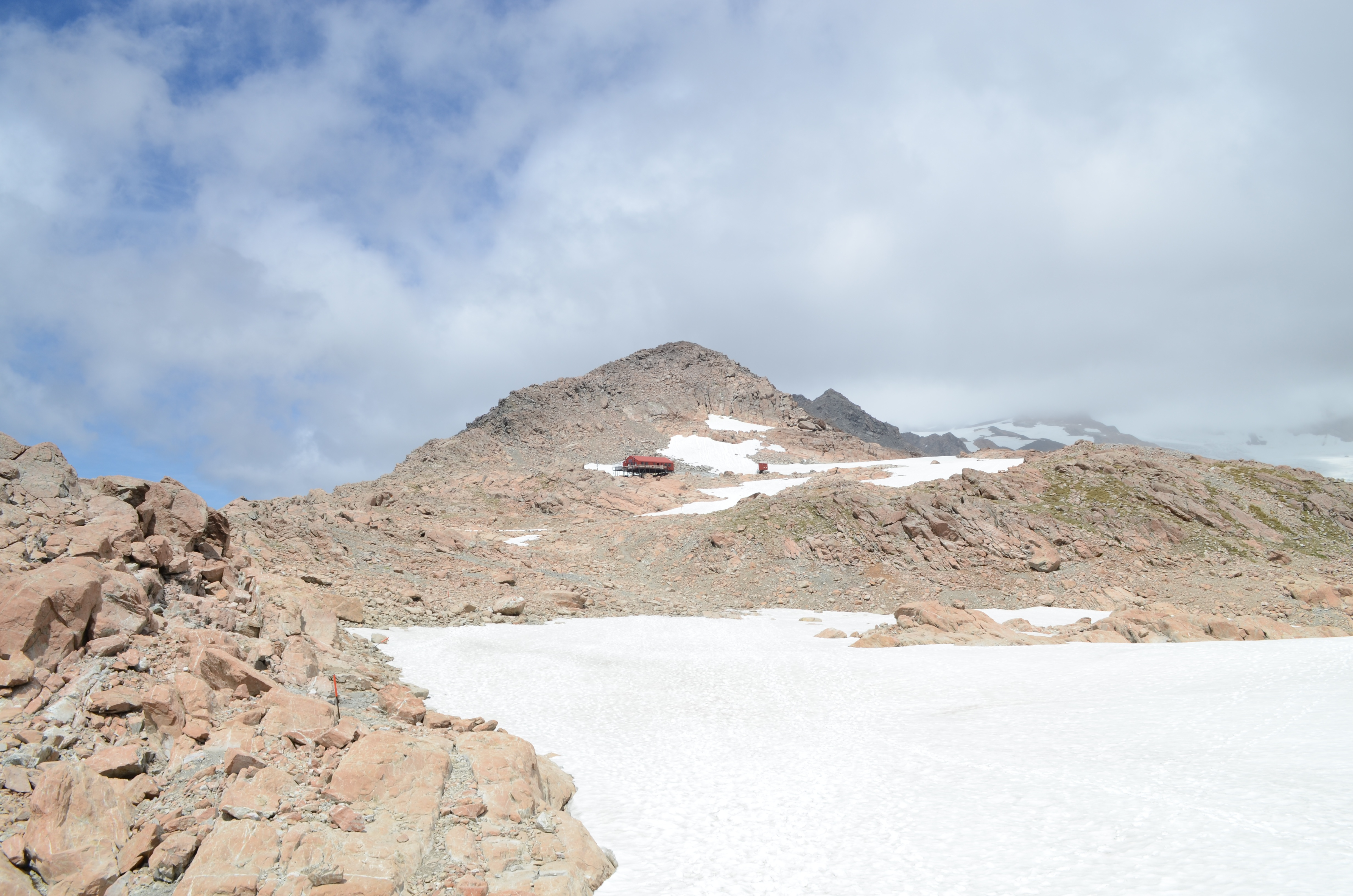 Mueller Hut and the summit of Mt. Ollivier behind. Mt Ollivier was named after Arthur Ollivier.